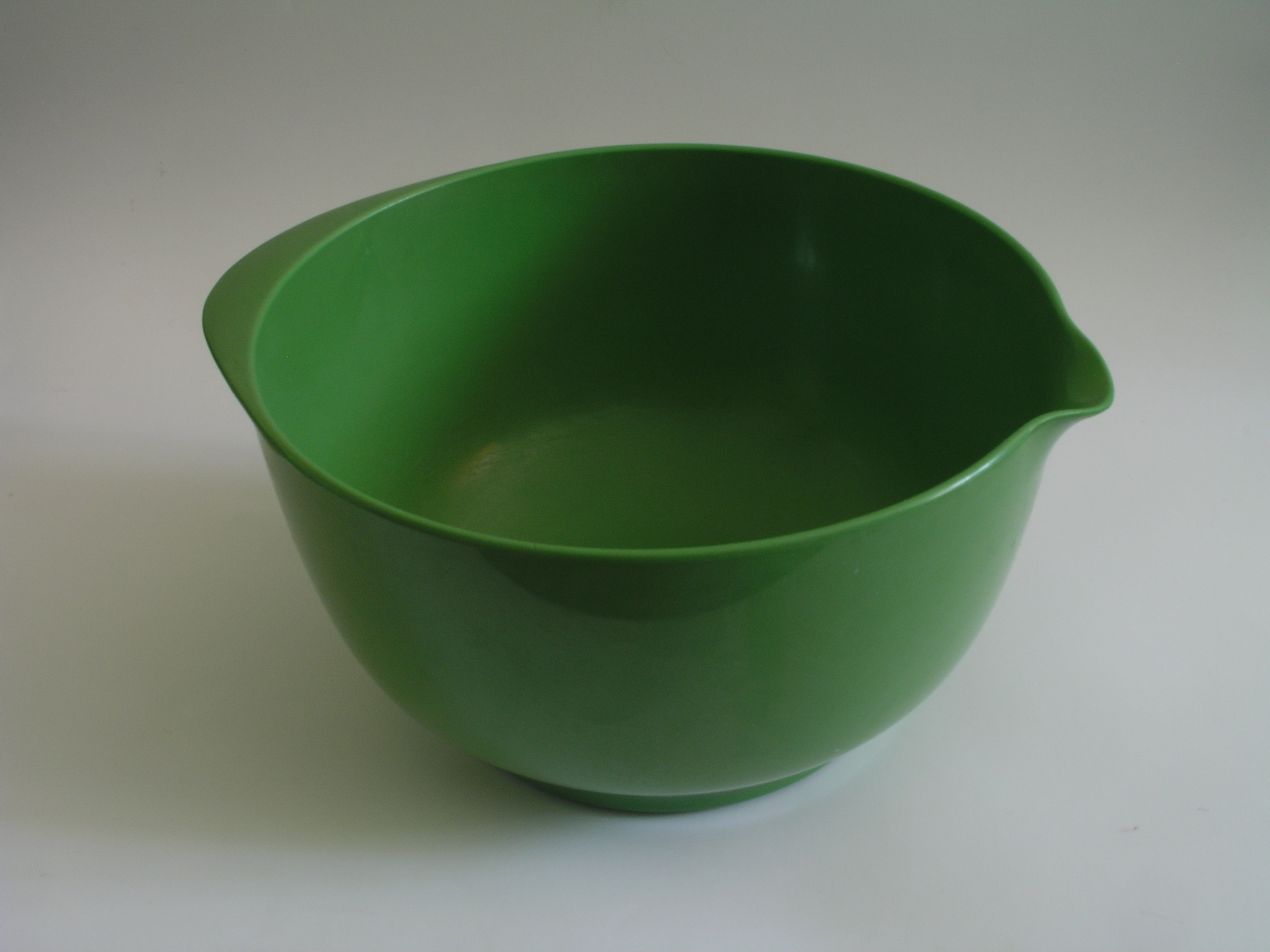 This green bowl is one bowl in a series of melamine bowls (Margretheskålen) designed by Acton Bjørn and Sigvard Bernadotte for the Danish company Rosti A/S